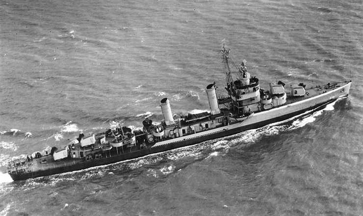 Photo #: 19-N-39868. USS Butler (DD-636) underway, off the Philadelphia Navy Yard, Pennsylvania, 6 October 1942. Photograph from the Bureau of Ships Collection in the U.S. National Archives. Image is cropped from original at